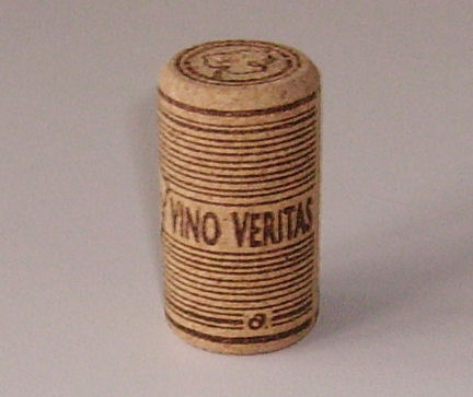 cork stopper